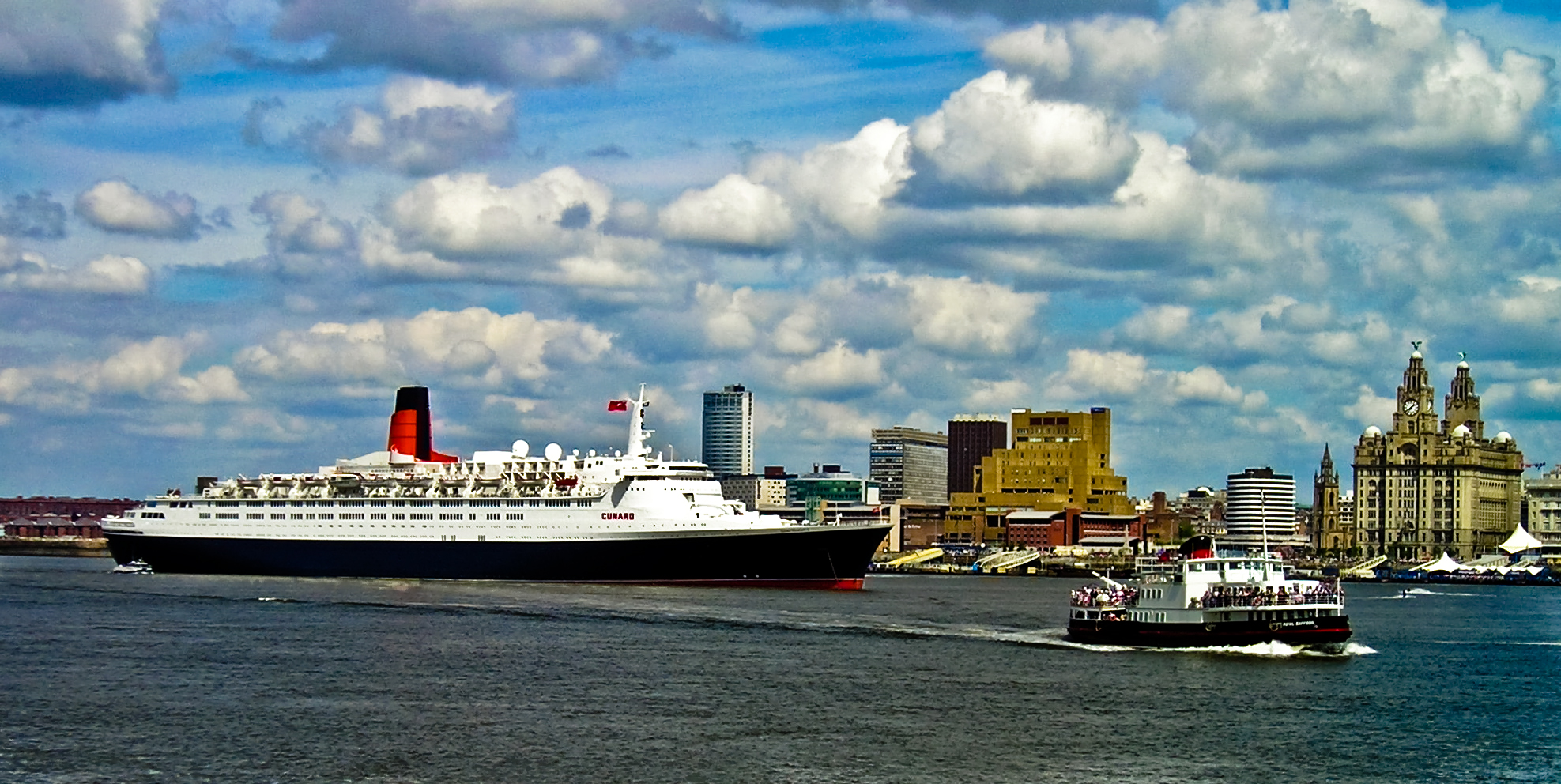 QE2 and Royal Daffodil in front of the Liver Building. Taken with my old Olympus 3 Megapixel cam, which cost more than the current Nikon D40 (even allowing for some mighty haggling in a shop in Eastern Germany). I printed this pic and still take the view that the Ferry dwarfs the other boat and iconic buildings. I swell with pride in seeing 'Ferry 'Cross The Mersey' on jukeboxes in Germany, Italy and Poland.